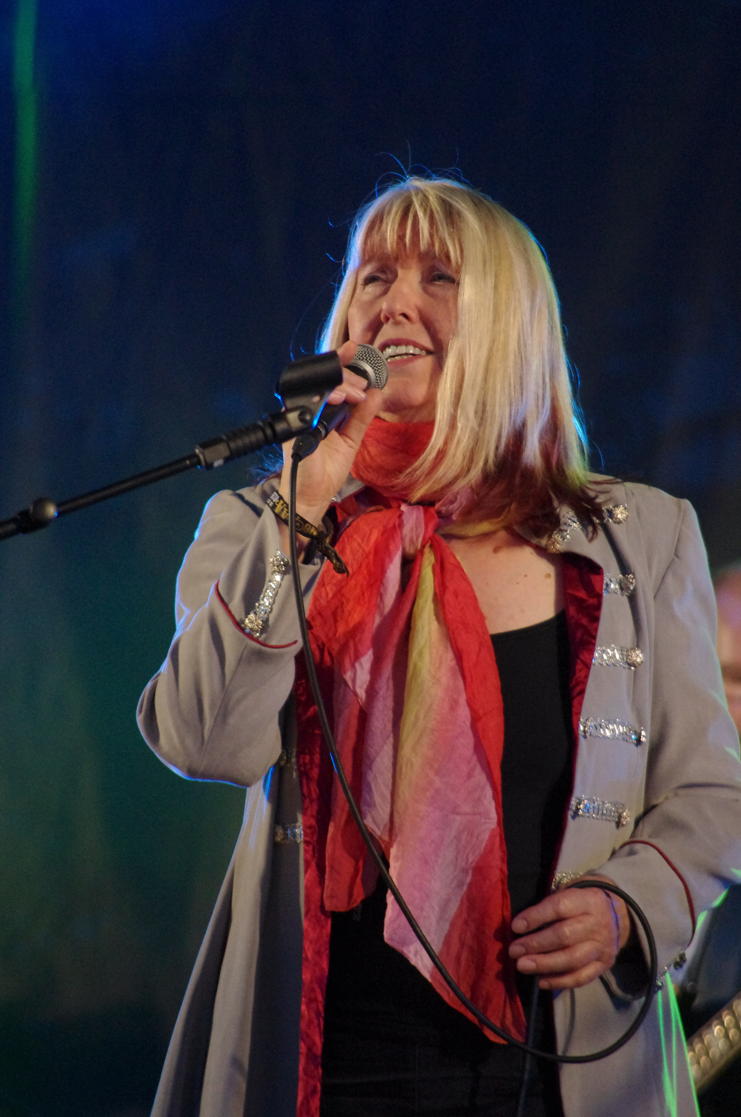 Maddy Prior, lead singer of Steeleye Span, at Fairport’s Cropredy Convention 2016